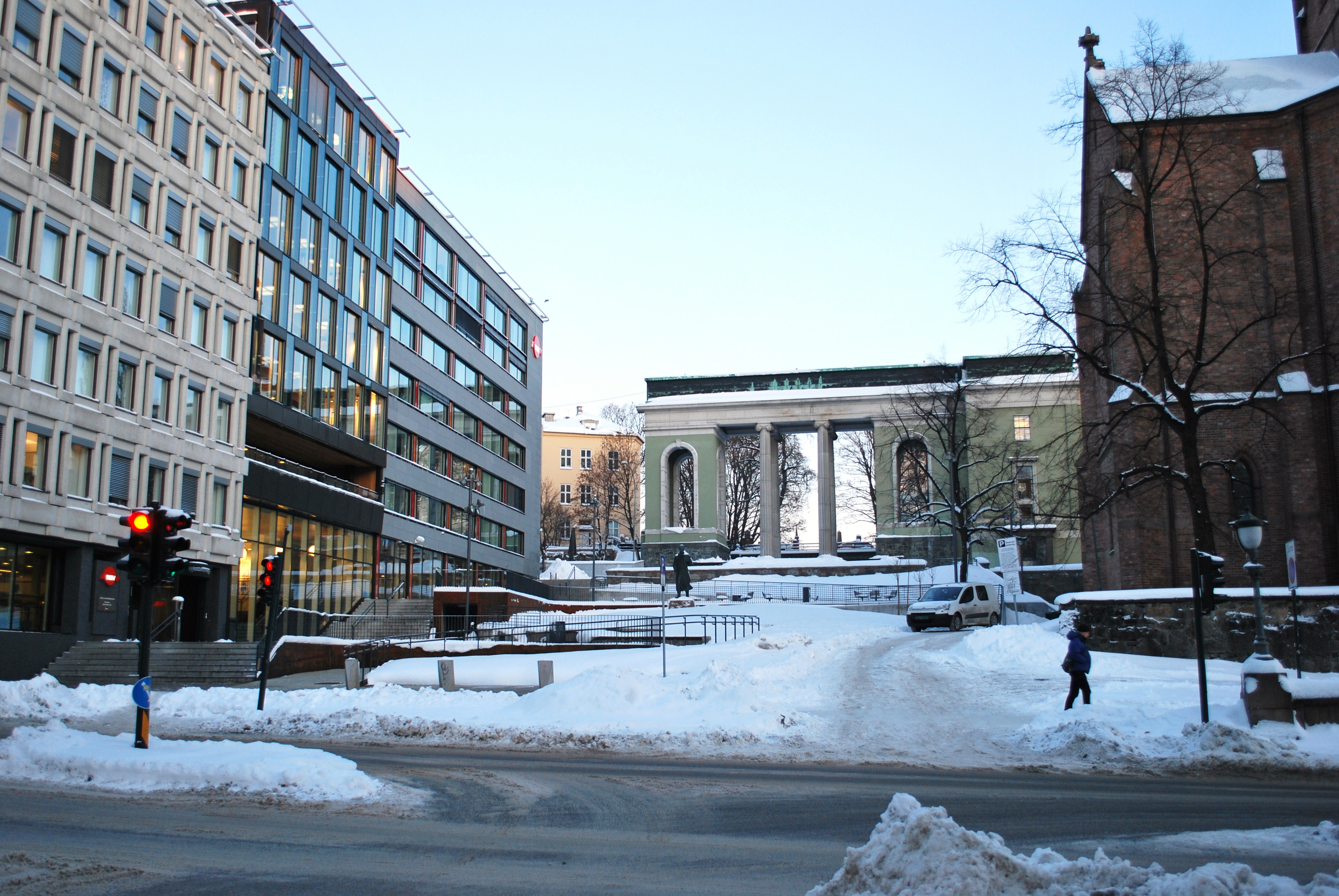 Schandorffs plass (square), by Akersgata, Oslo. Deichmanske Library (colonade) and Trefoldighetskirken seen